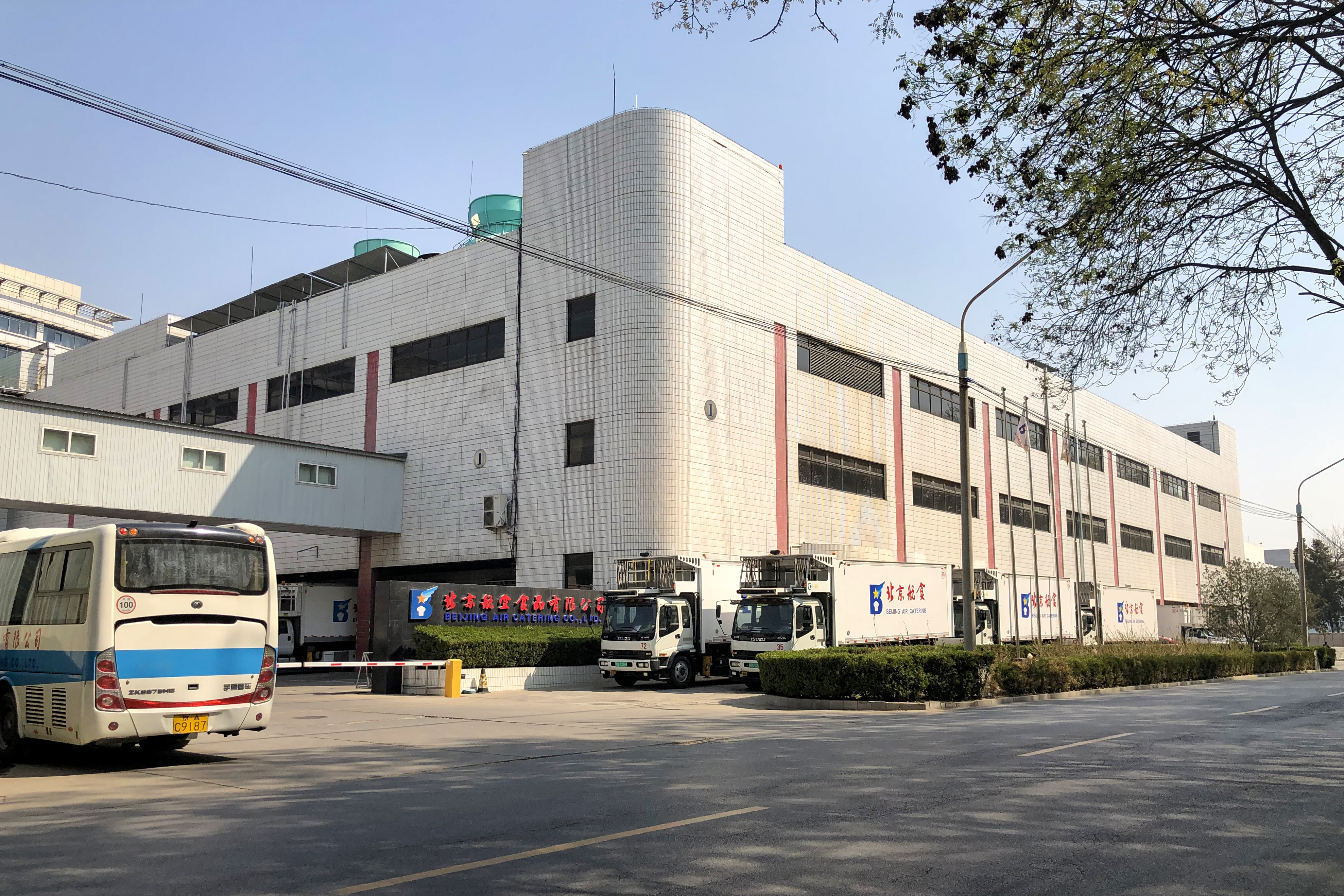 The old section at Airport West Road.